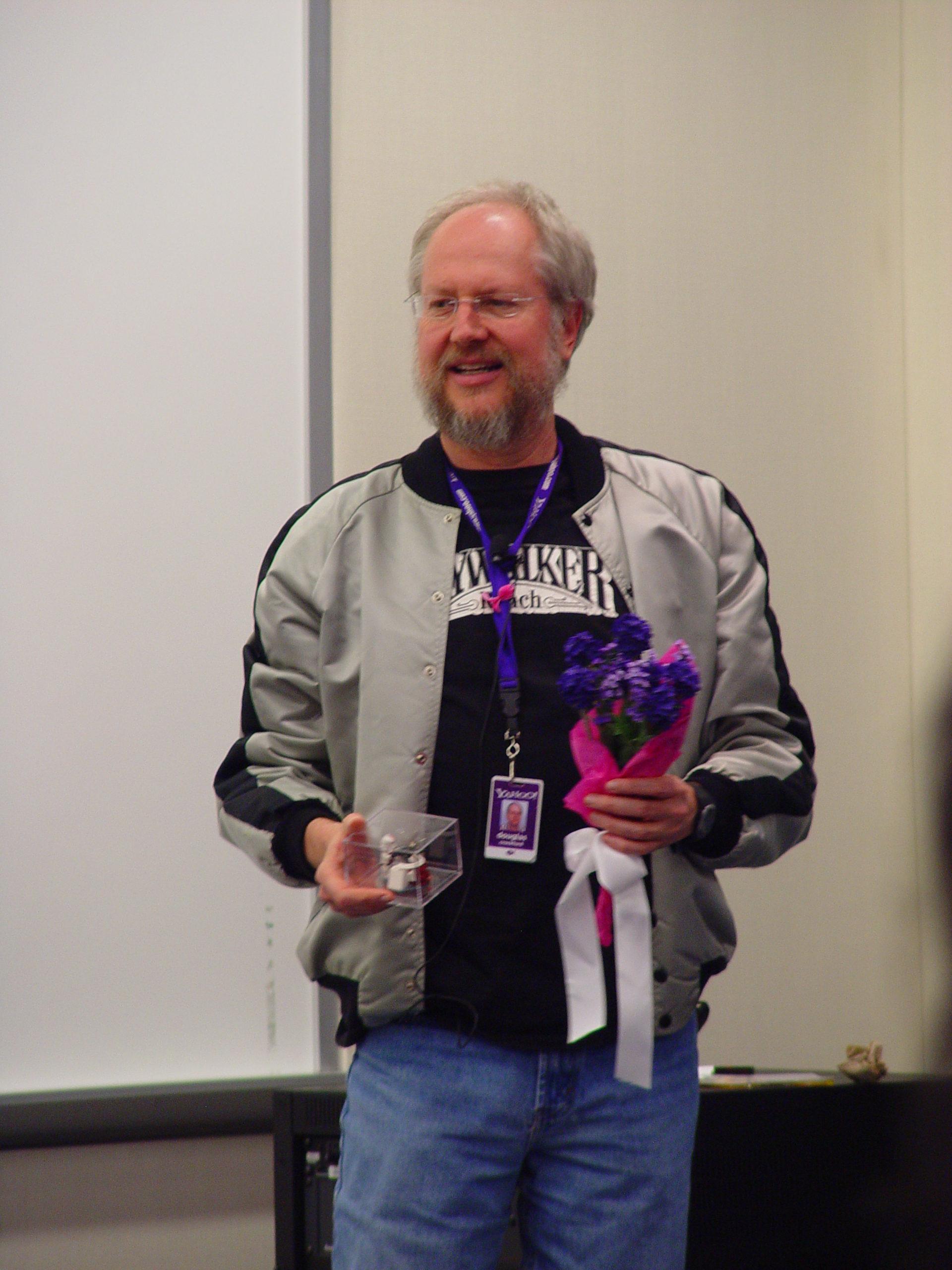 Douglas Crockford Architect at Yahoo! & Founder of JSON __________________________ Browser Wars: Episode II Attack of the DOMs February 28, 2007 - 6:00pm Yahoo Building C, 701 First Avenue, Sunnyvale CA 94089